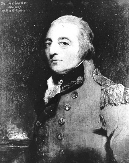 William Twiss (1749-1827)